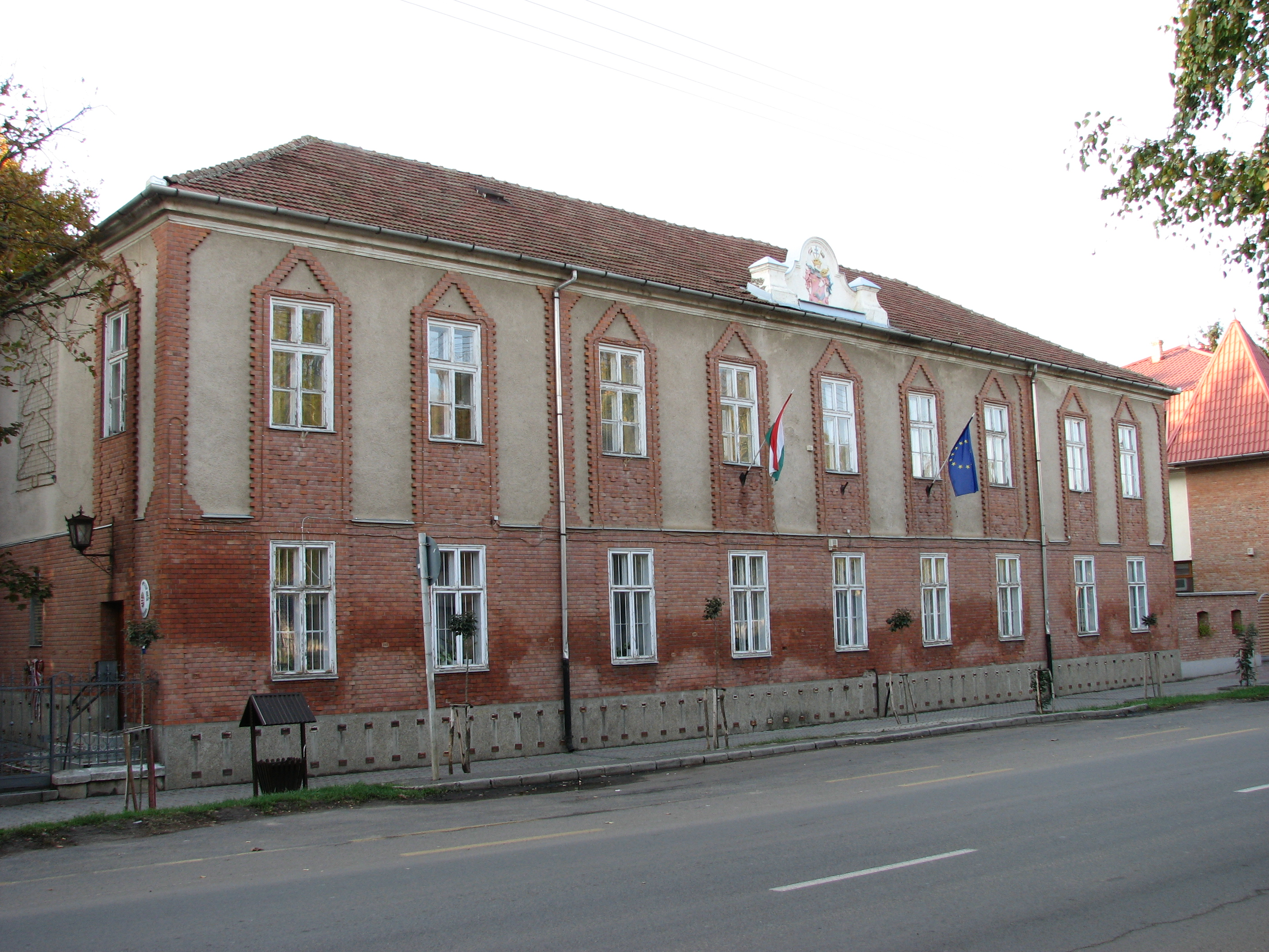 Town Hall of Hajdúdorog, Hungary.